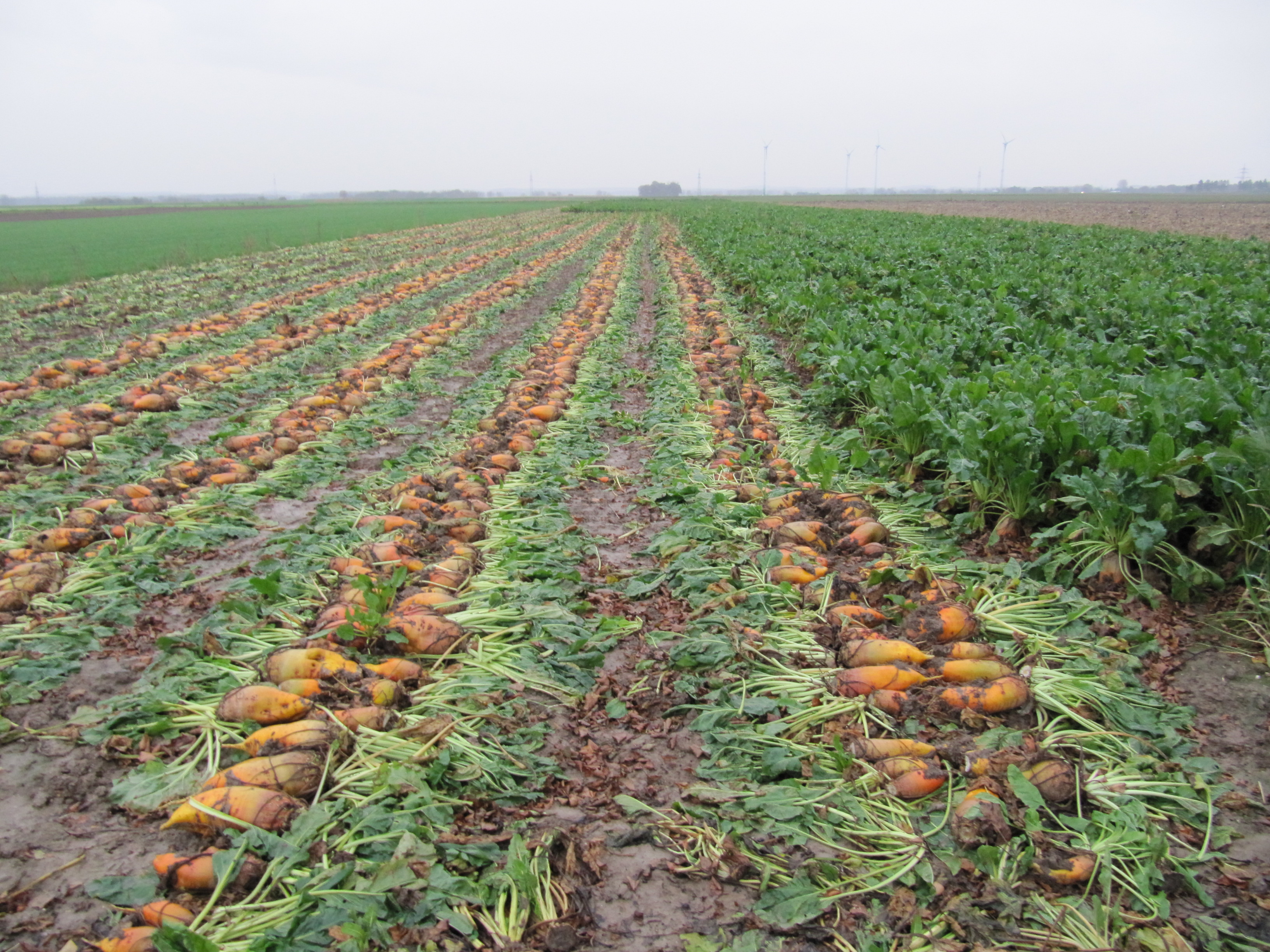 Beta vulgaris